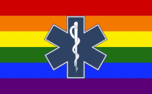 lgbt healthcare